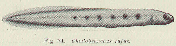 Cheilobranchus rufus Subject: Alabes, Cheilobranchus Tag: Fish